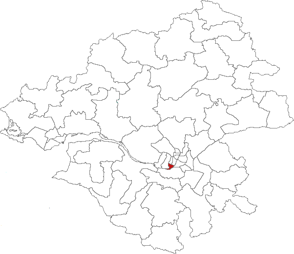 Map of canton of France : Canton de Nantes-5, Loire-Atlantique, France